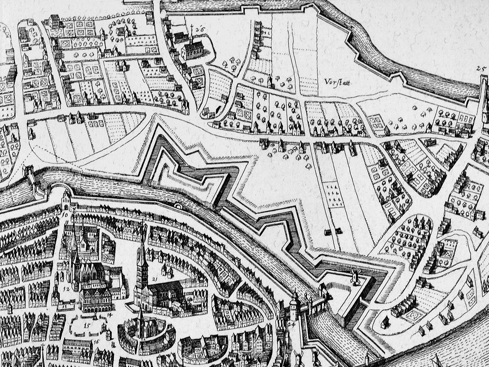 The Remberti-Vorstadt (“Remberti suburb”) and the Ostertor-Vorstadt (“Ostertor suburb”) in Bremen, Germany, around 1640. Clipping from the map Brema by Matthäus Merian senior.